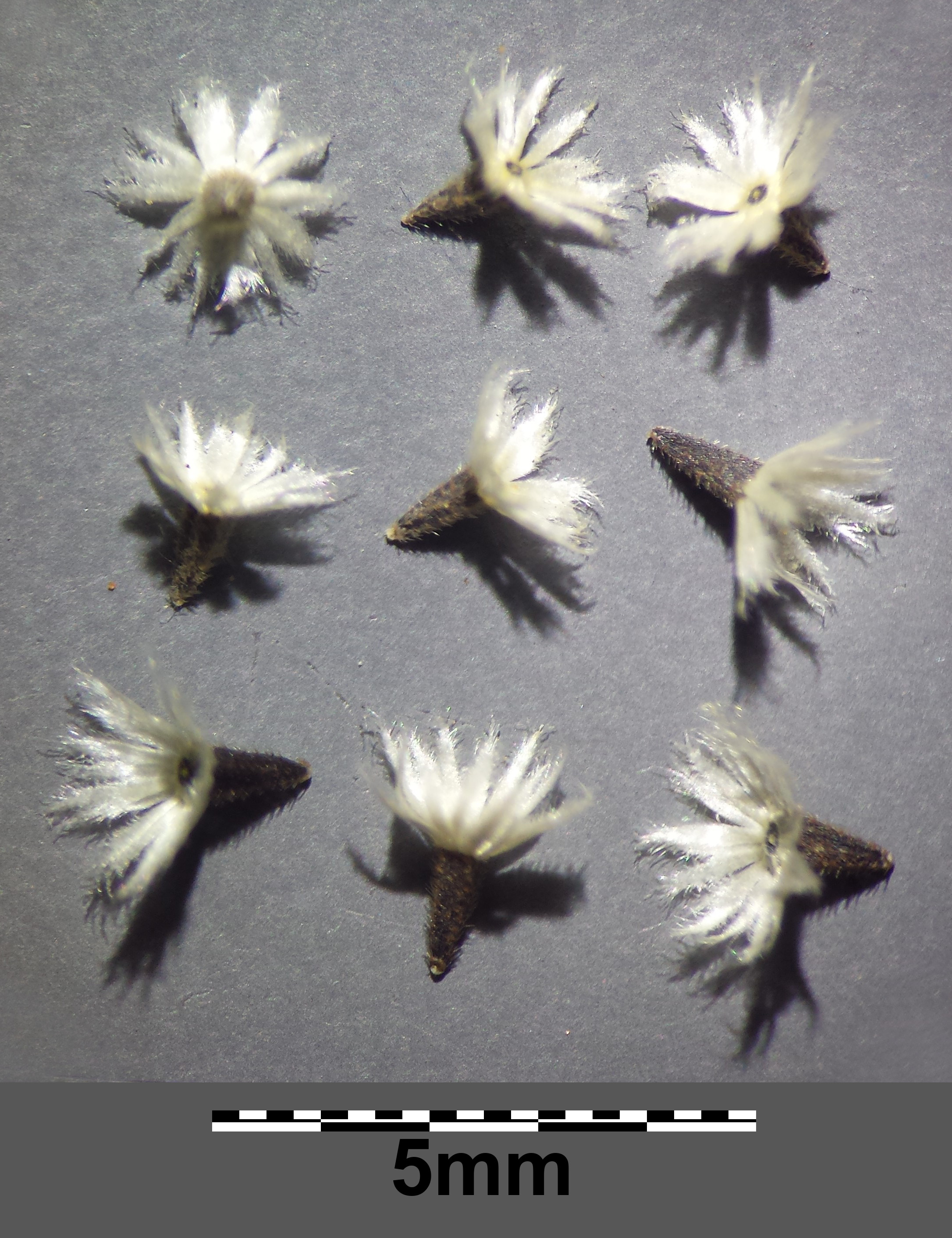 Fruits Taxonym: Galinsoga parviflora ss Fischer et al. EfÖLS 2008 ISBN 978-3-85474-187-9 Location: Nordmanngasse, Donaufeld, Vienna-Floridsdorf - ca. 160 m a.s.l. Habitat: wet field